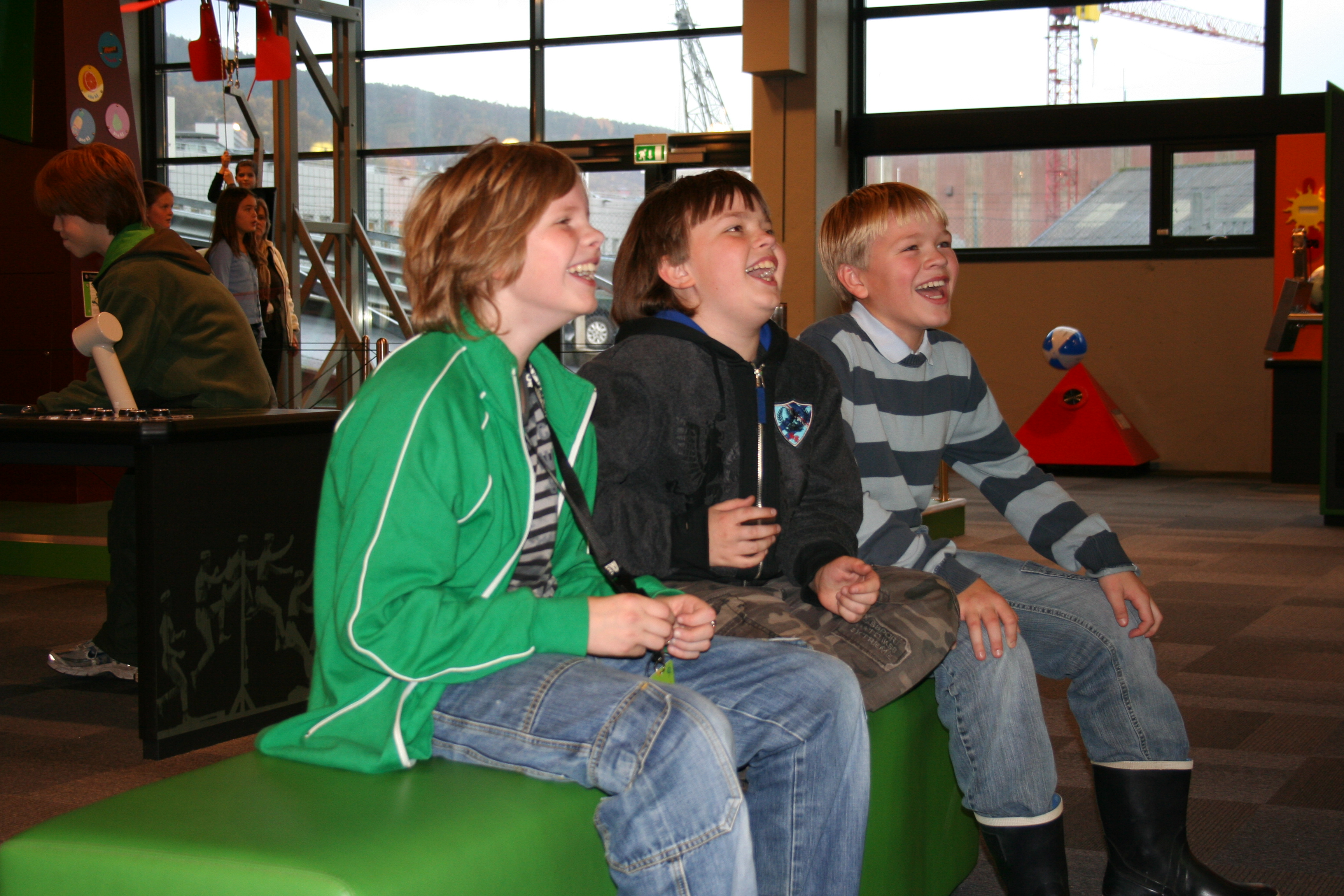 Some boys laughing at their own weather forecast, created by bluescreen technology.